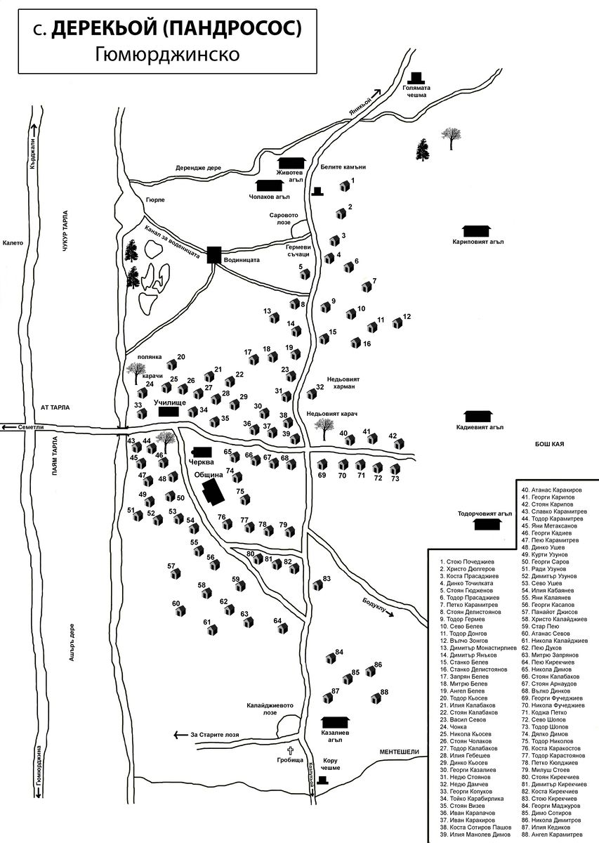 Household map of Pandrossos village as in 1924